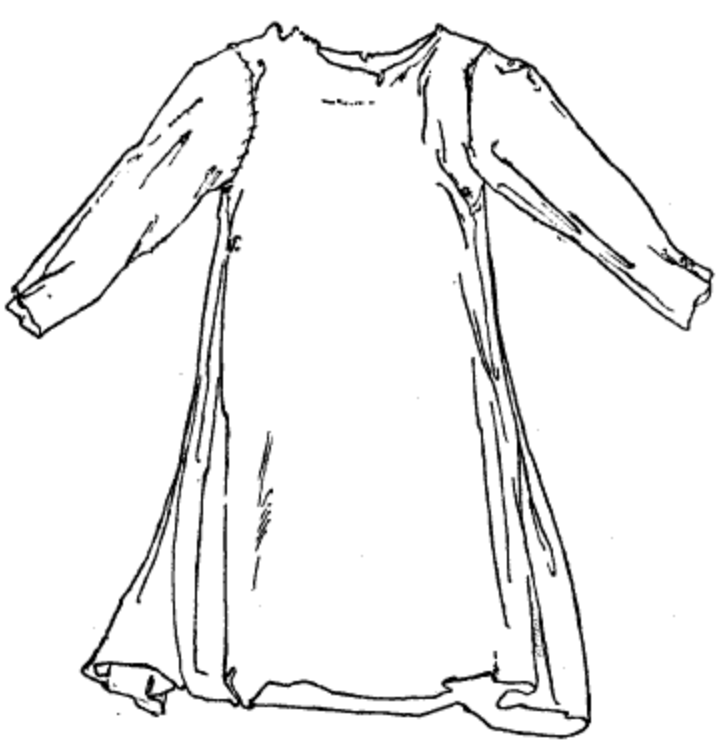 Tunic from a grave in Greenland − Before 1400 − At the National Museum of Denmark kirtle - Old English cyrtel, probably from 'cyrtan' to shorten, ultimately from Latin curtus cut short (